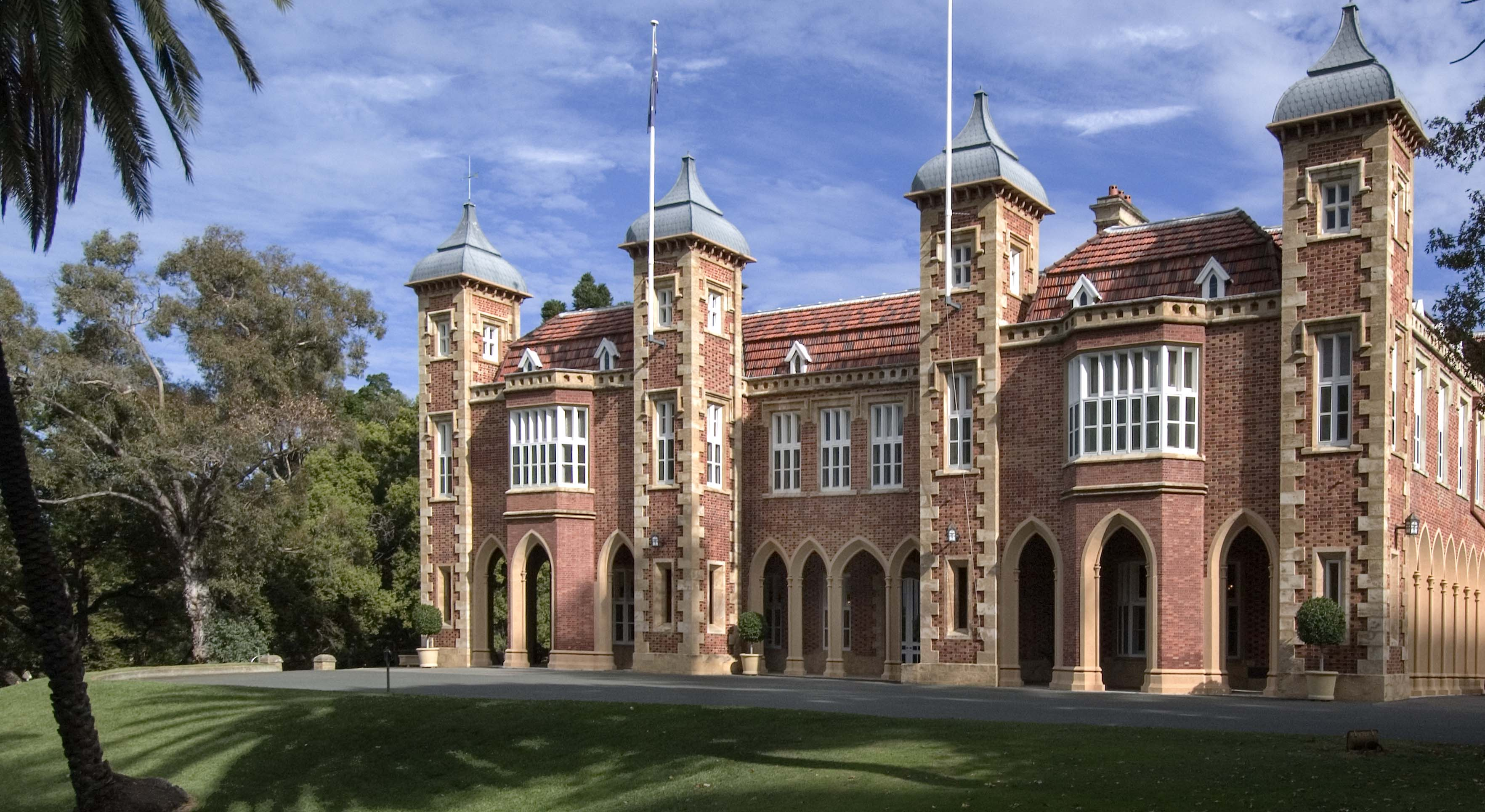 Government House, east front